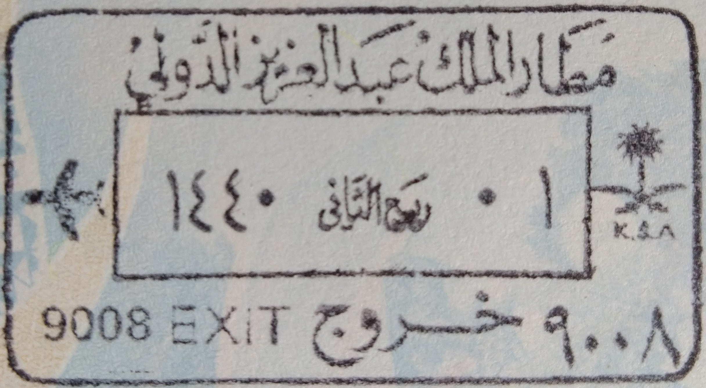 Saudi Immigration stamp in Malaysia Passport